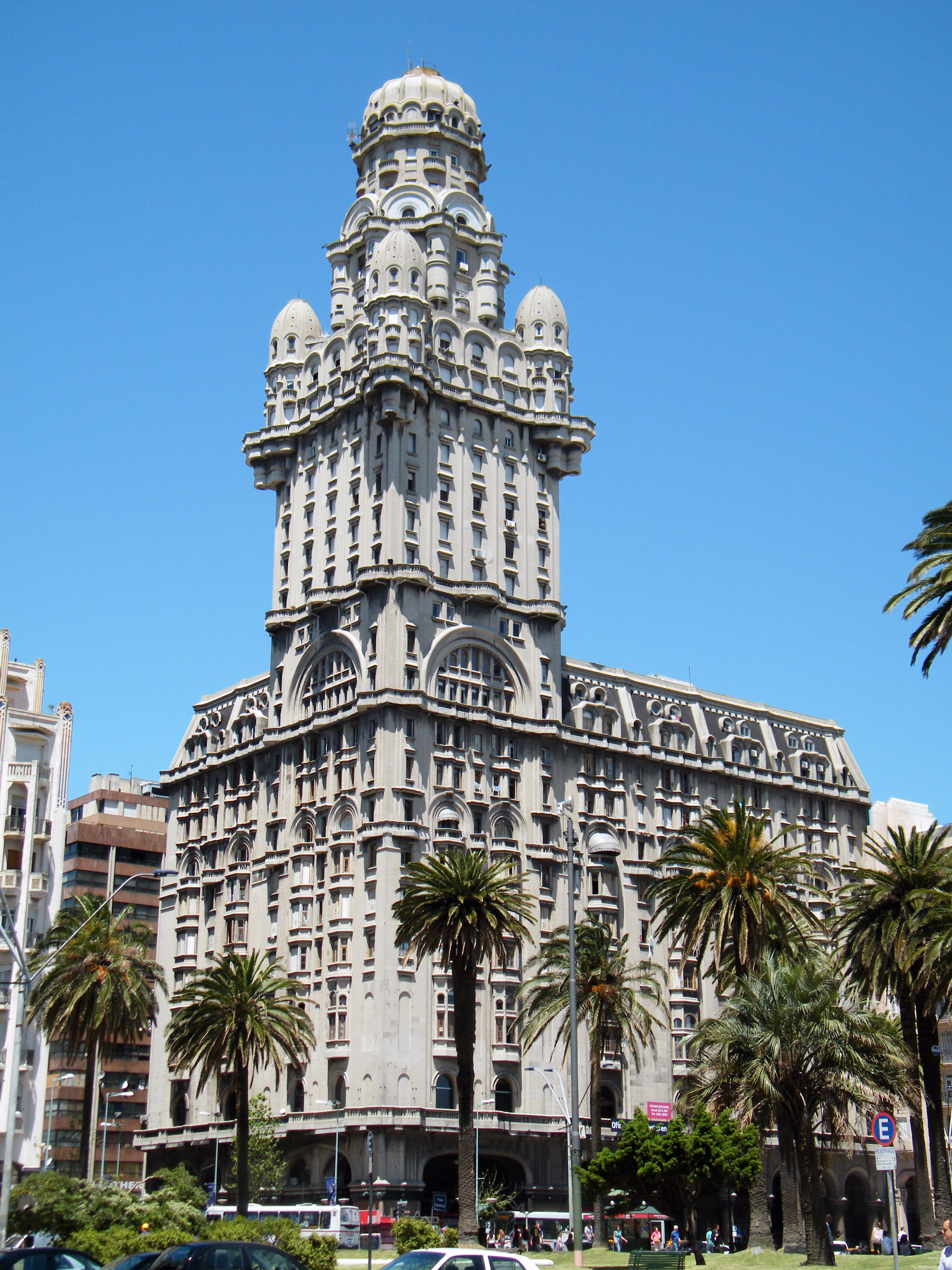 Palacio Salvo in Montevideo, Uruguay. Photographed by user Coolcaesar on November 19, 2012.